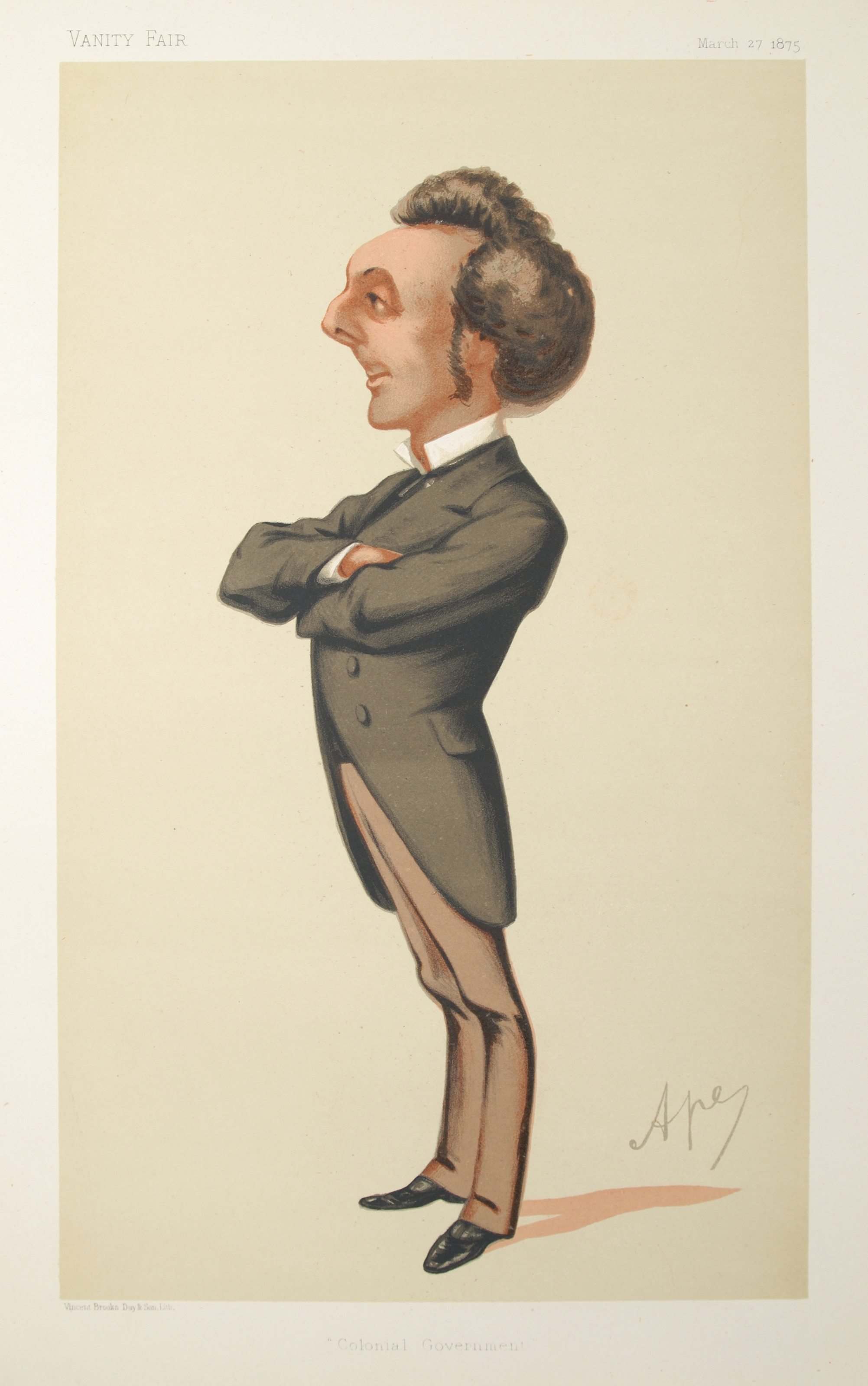 Men or Women of the Day No.100: Caricature of HE Governor John Pope Hennessy CMG. Caption reads: "Colonial Government."